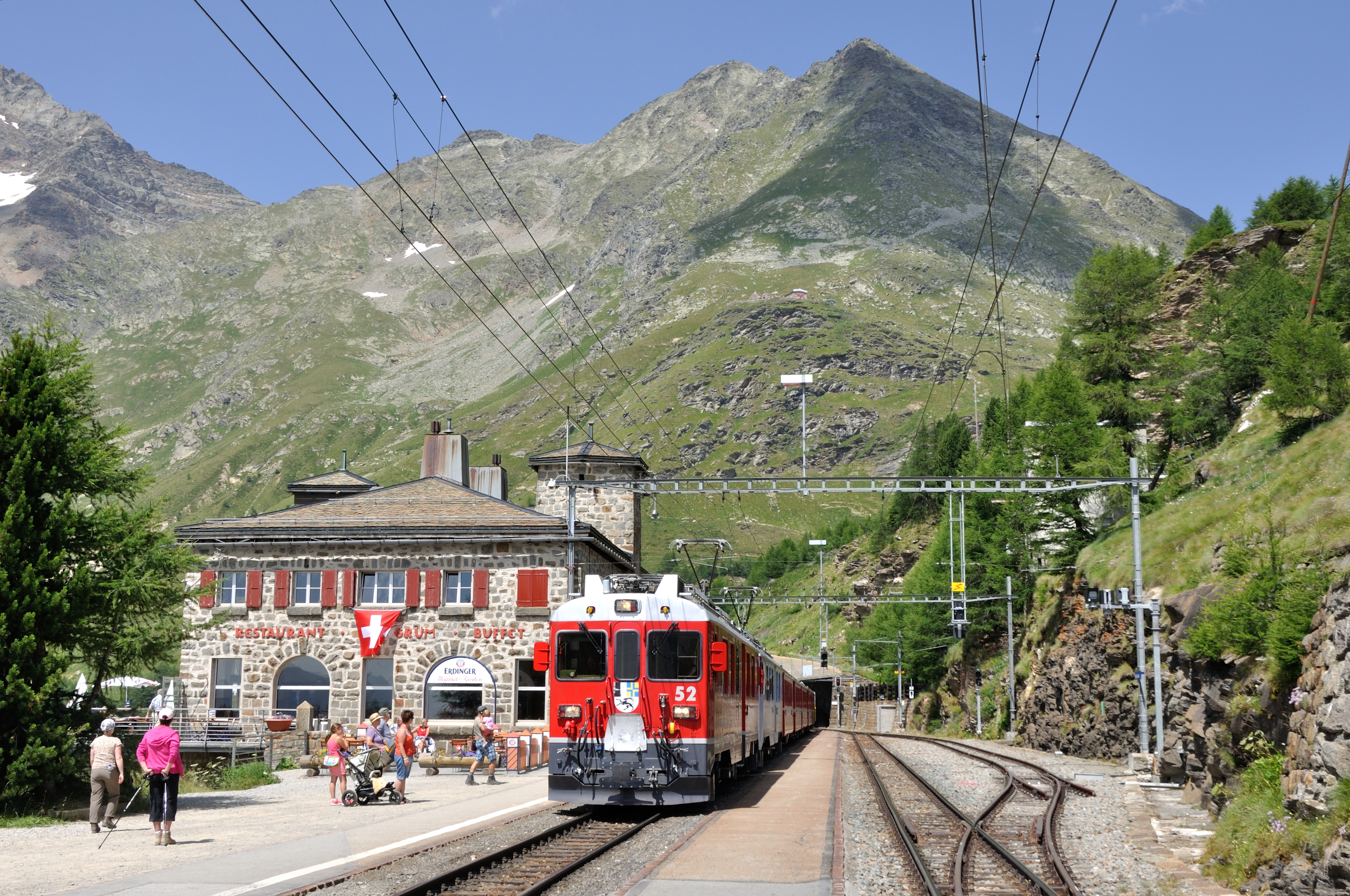 Switzerland, Graubünden, views along the hiking trail from Bernina Pass to Alp Grüm